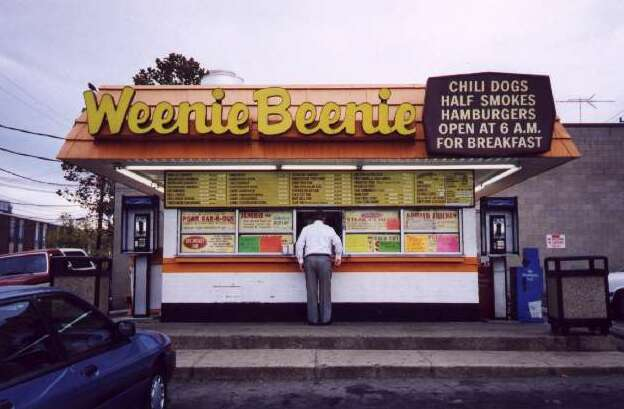 (Chris K., I took this photo several years ago but the place still looks the same, also at by my permission)